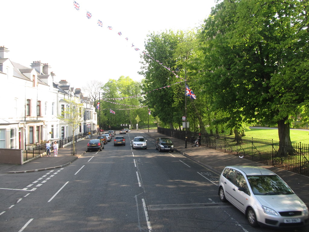 Loyalist Woodvale Road